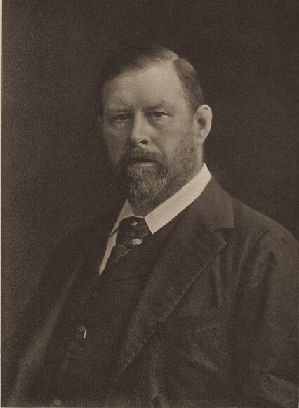 An autographed photogravure of Irish author Bram Stoker